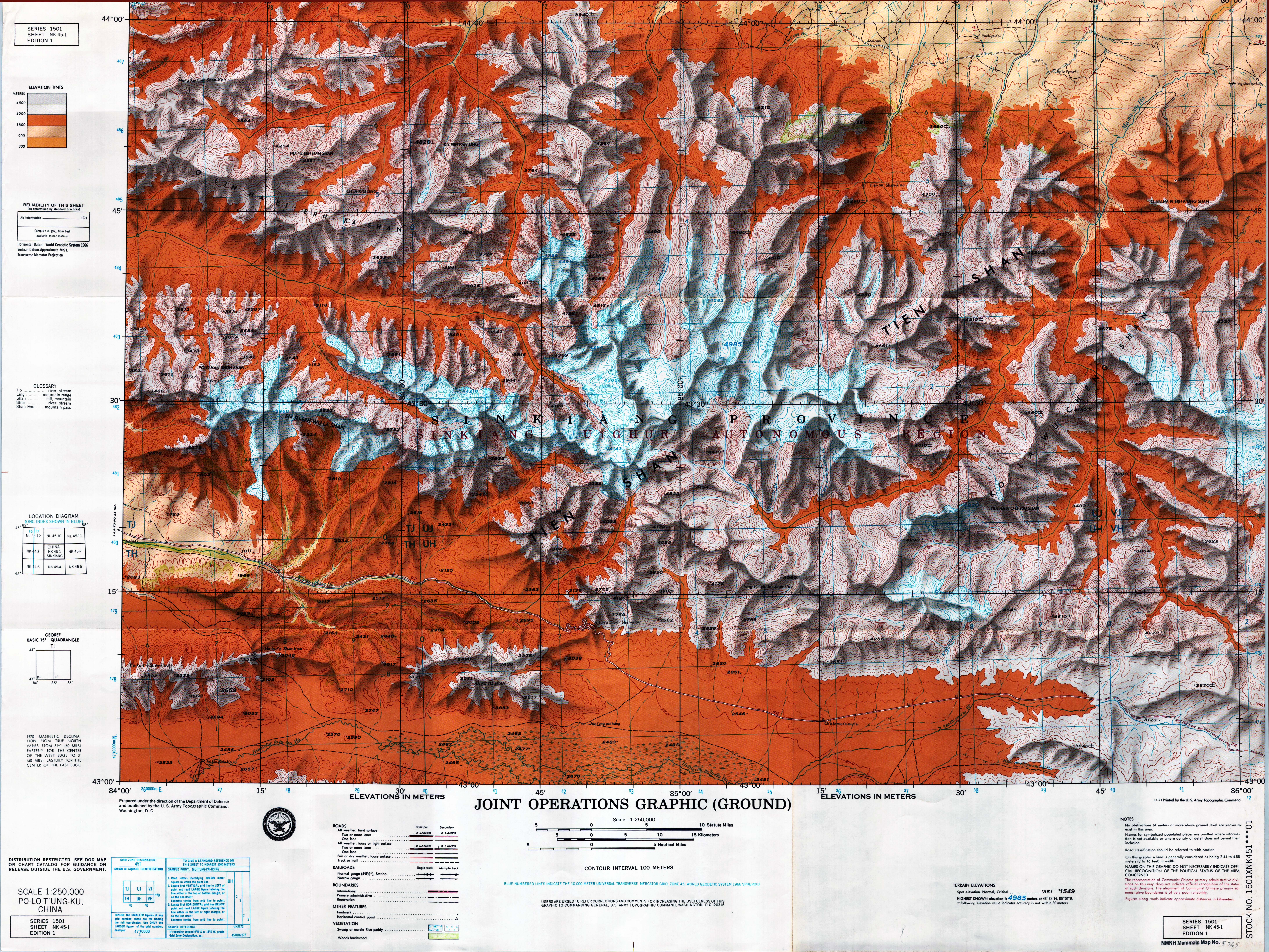 NK-45-01 Po-Lo-T'ung-Ku China